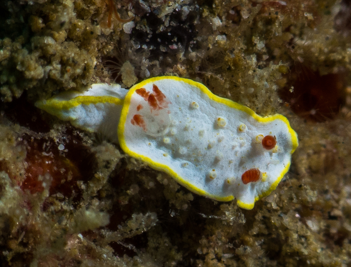 Ola Khalaf's Nudibranch (Diaphorodoris olakhalafi Khalaf, 2017) from Dibba Sea, Gulf of Oman, East Coast of the United Arab Emirates.